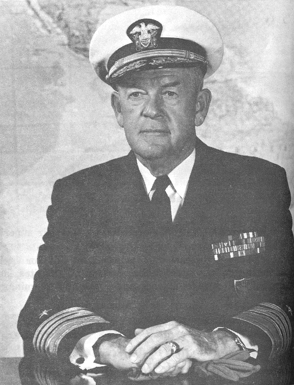 Admiral Ephraim P. Holmes, Commander in Chief of the U.S. Atlantic Fleet